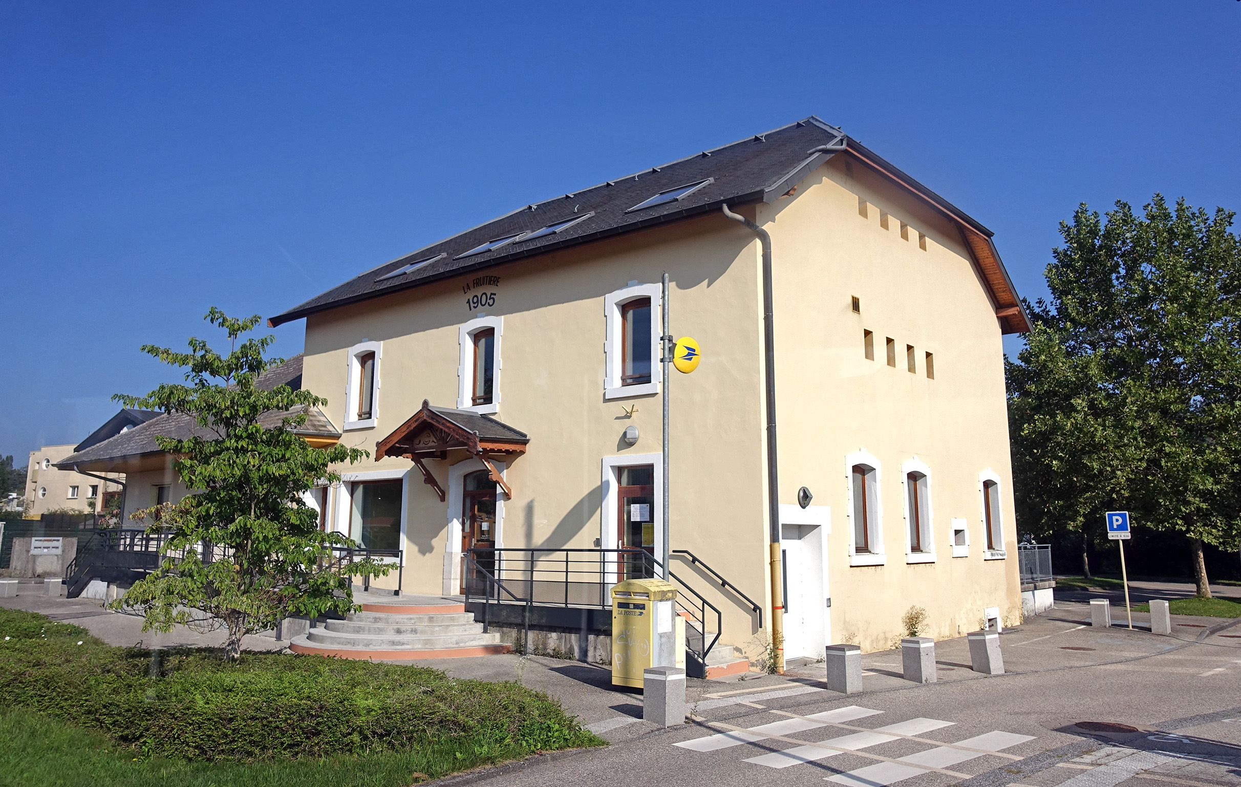 Chavanod, France